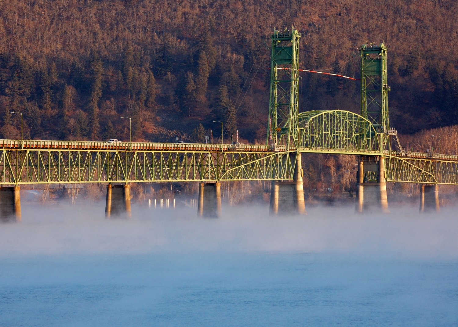 The Hood River Bridge surrounded by mist.